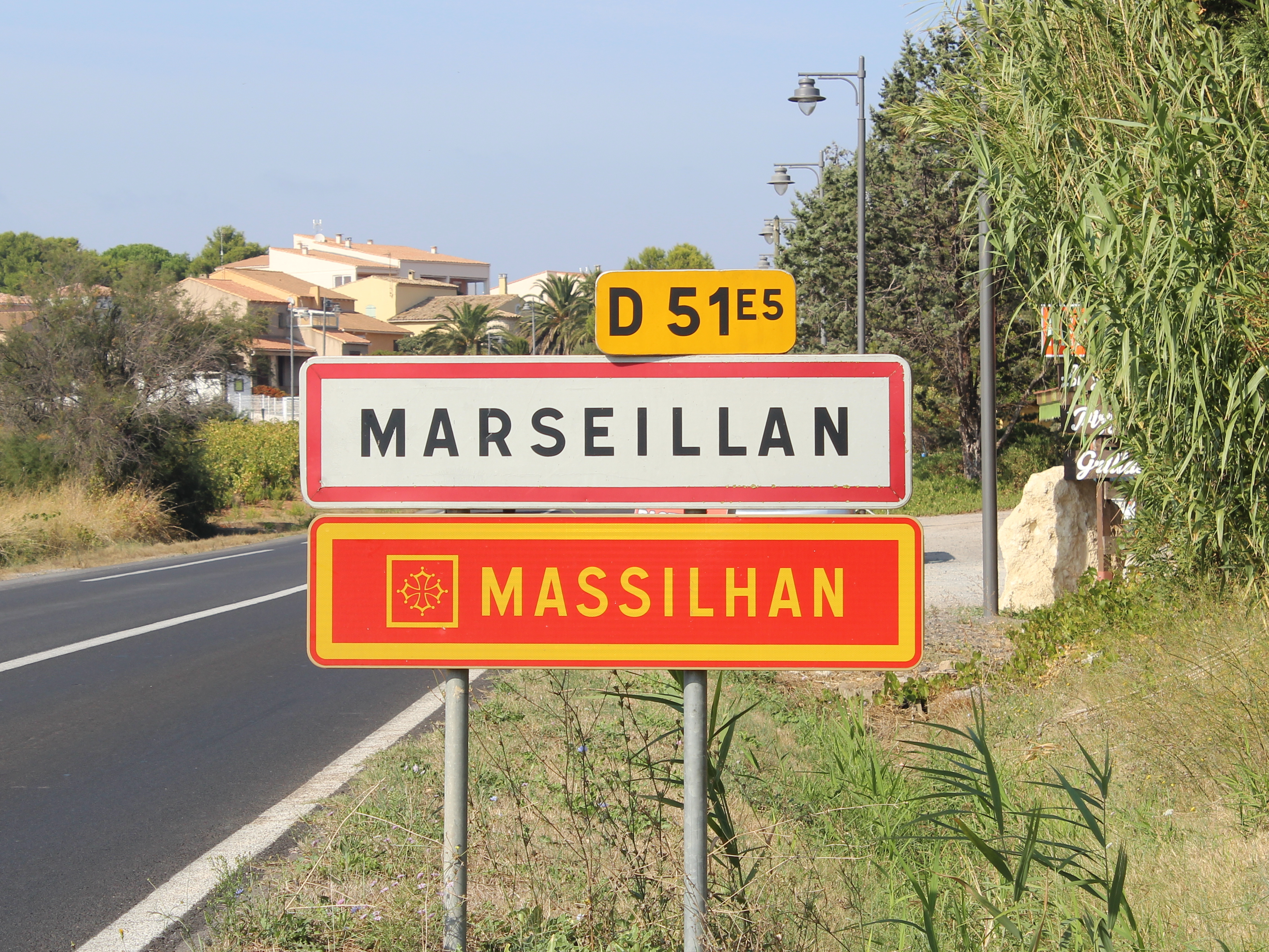 Sign showing entrance to Marseillan (and implied 50 km/h speed limit) in both French and Occitan languages. The Occitan-language sign is in the Occitan colours and also displays the Occitan symbol.